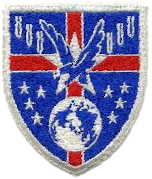 Emblem of the 68th Bombardment Squadron (SAC)